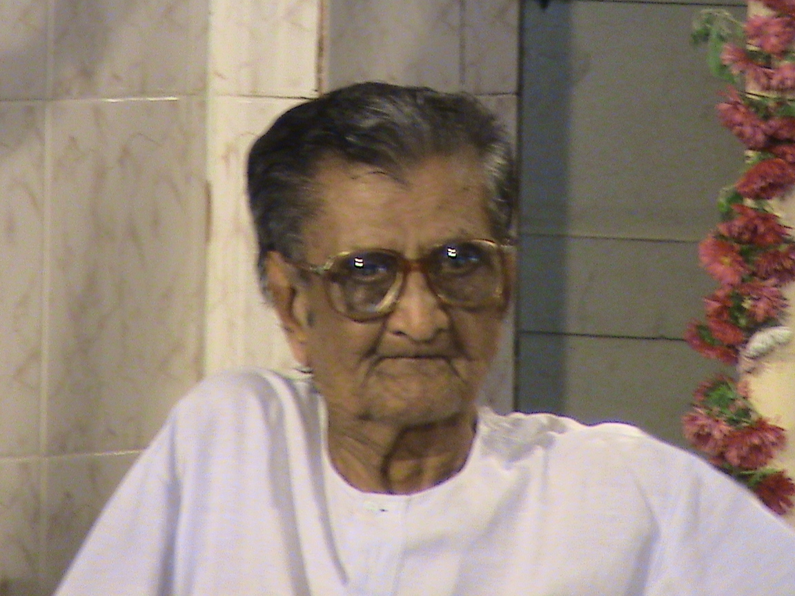 Photographer: Anand Source: Clicked during the wedding ceremony of a Panditji's disciple.